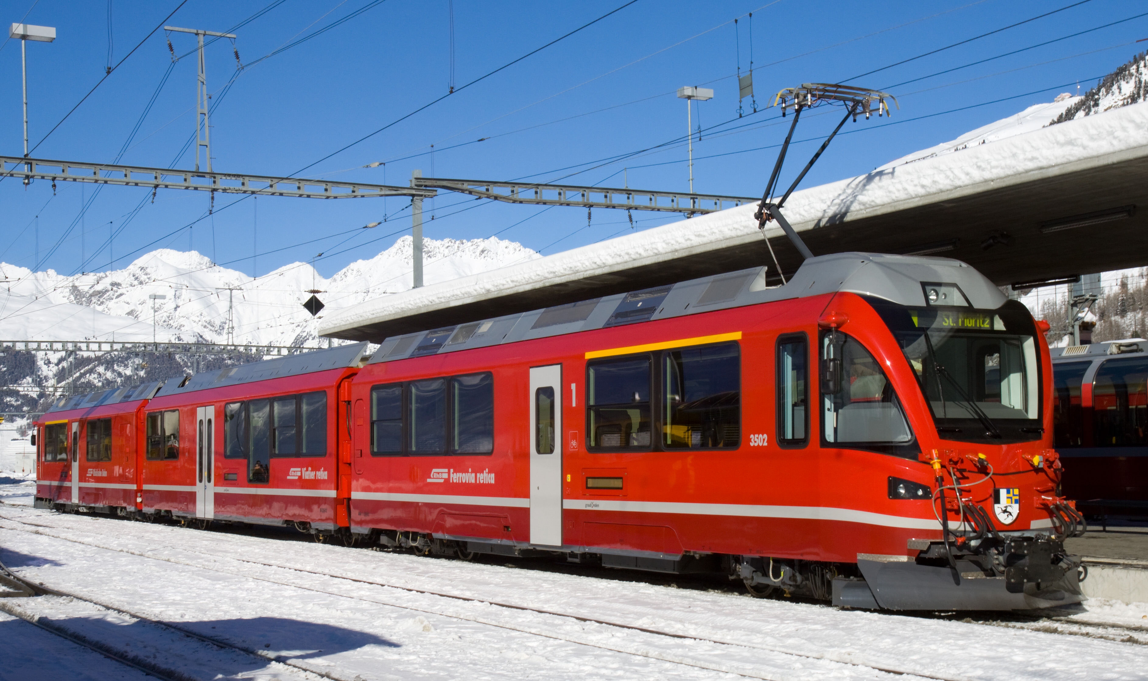 The newest multiple unit of Rhätische Bahn, the ABe 8/12 "Allegra", at Pontresina.